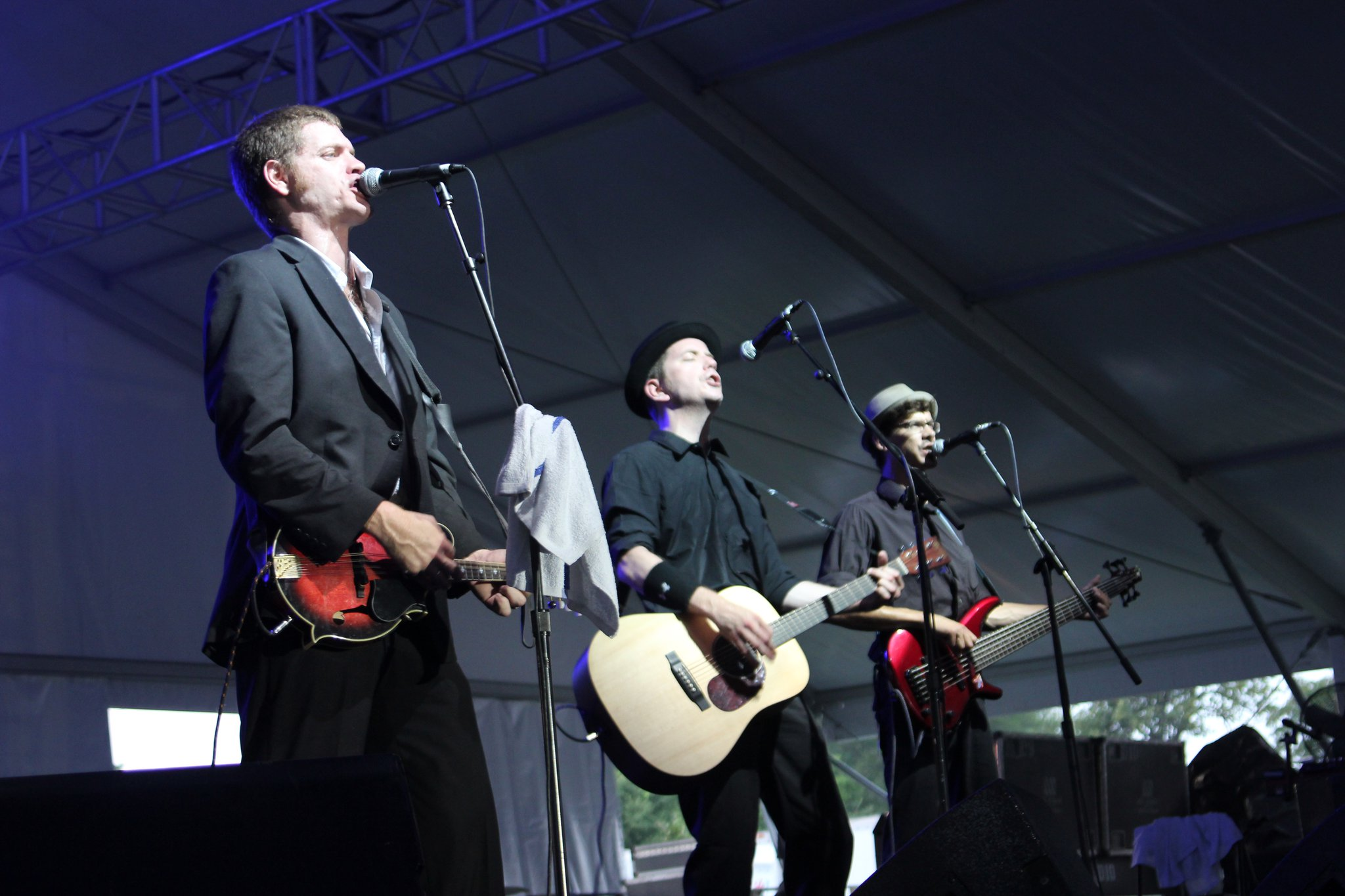 Band The Tossers performing live